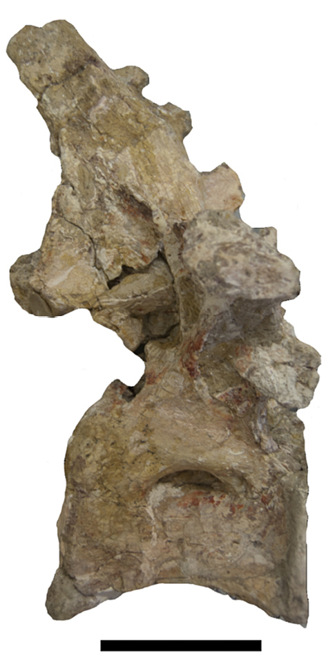 Atsinganosaurus velauciensis (VBN 93.01), late Campanian, Velaux-La Bastide Neuve, Bouches-de-Rhône, southern France. Posterior dorsal vertebra, right lateral view. Scale bar equals 10 cm.